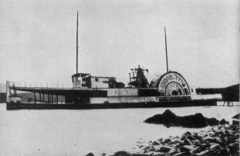 Hulk of sidewheeler Eliza Anderson, abandoned in Alaska.